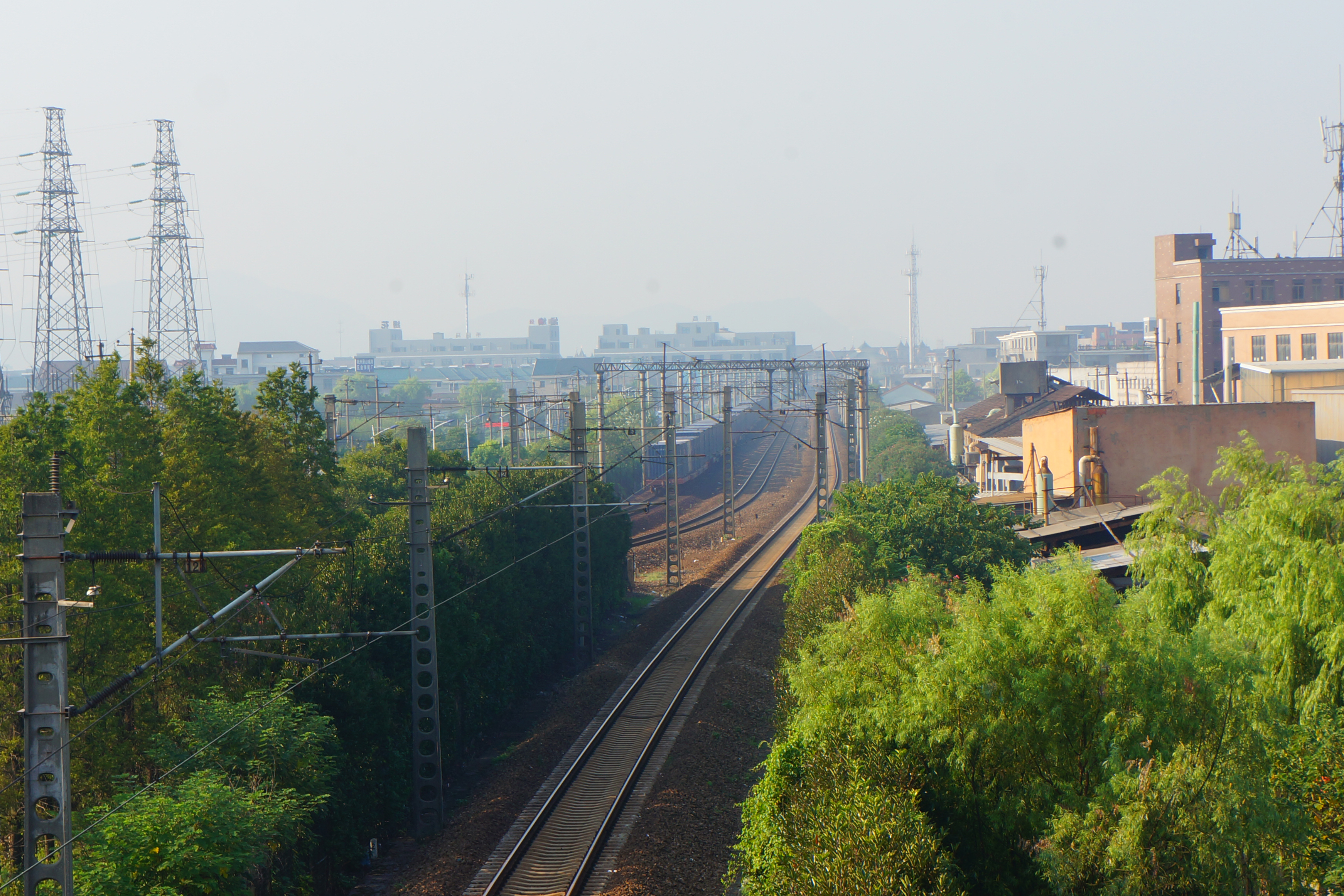 201607 Intersection of Main Line and Subline of Shanghai–Kunming Railway near Bailutang